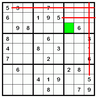 Cross-hatching